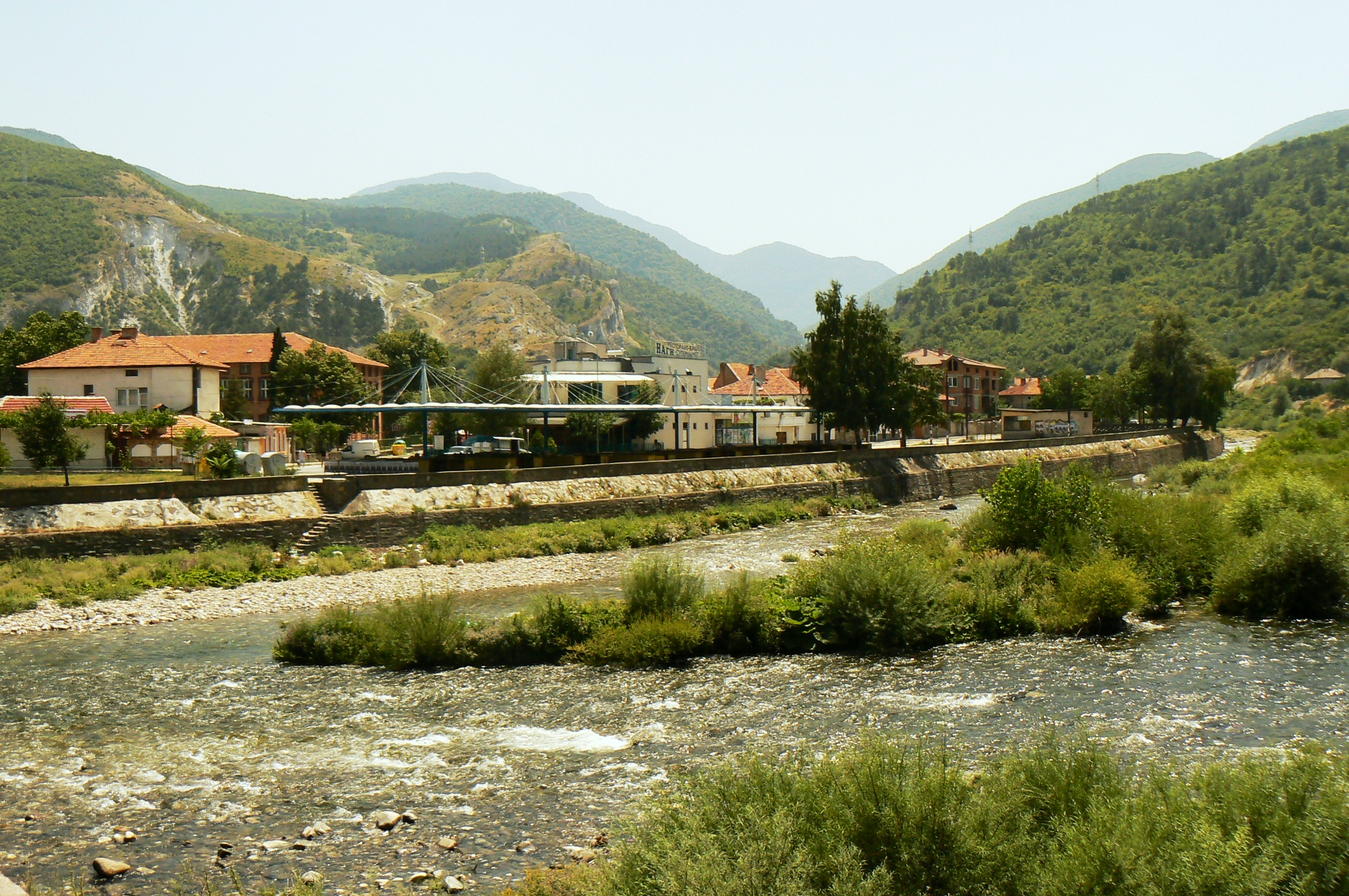 River Vatcha, flowing through the centre of Krichim, Bulgaria.